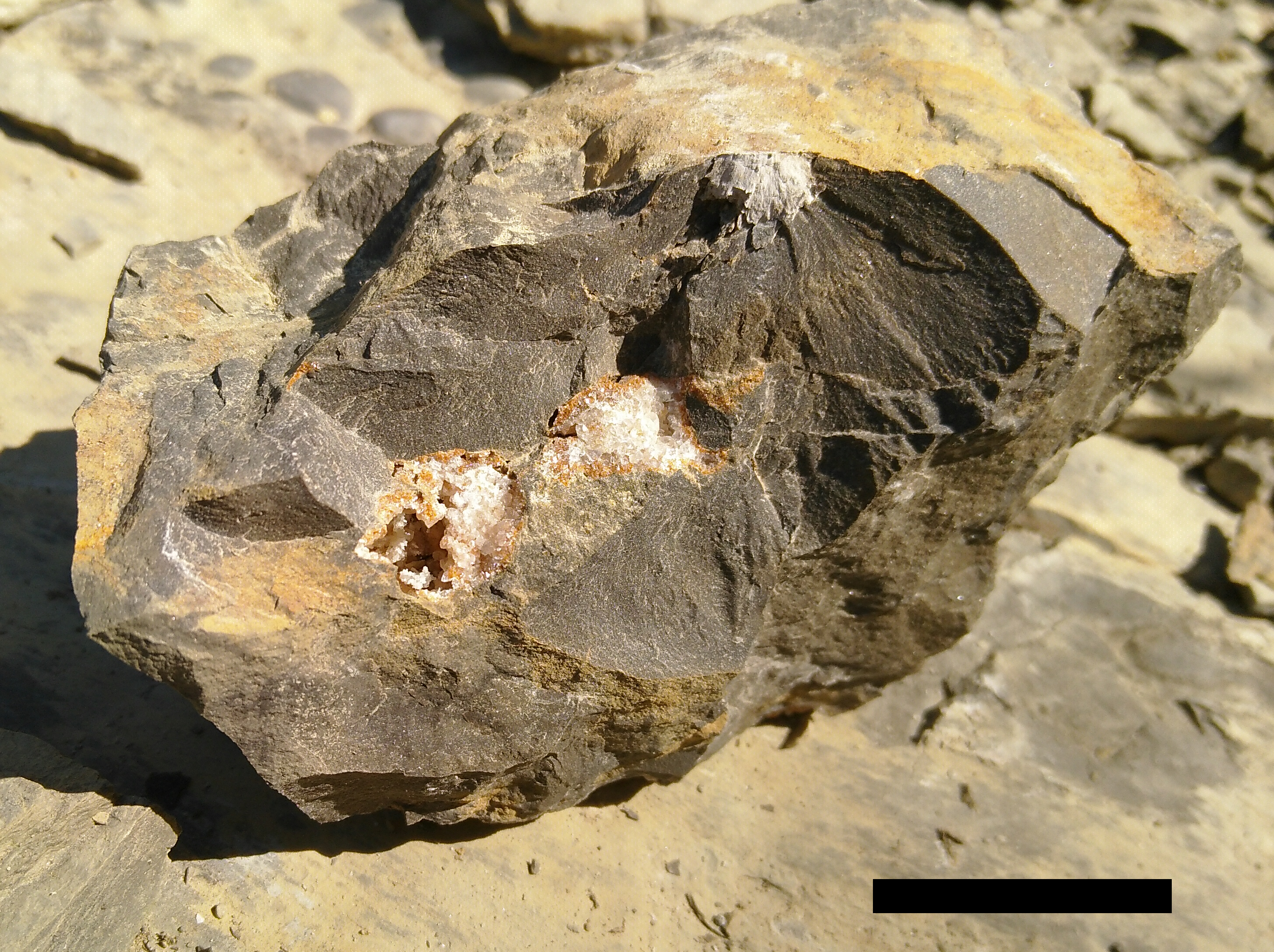 Sedimentary geode at Geotop Ramsthal. The scale bar is 3cm. Picture taken August 6th 2018.